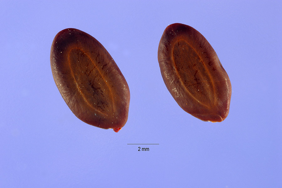 Guajillo. Seeds. TX, USA.